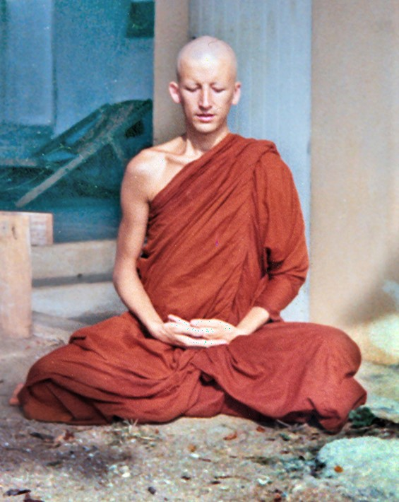 ChristopherTitmuss1973